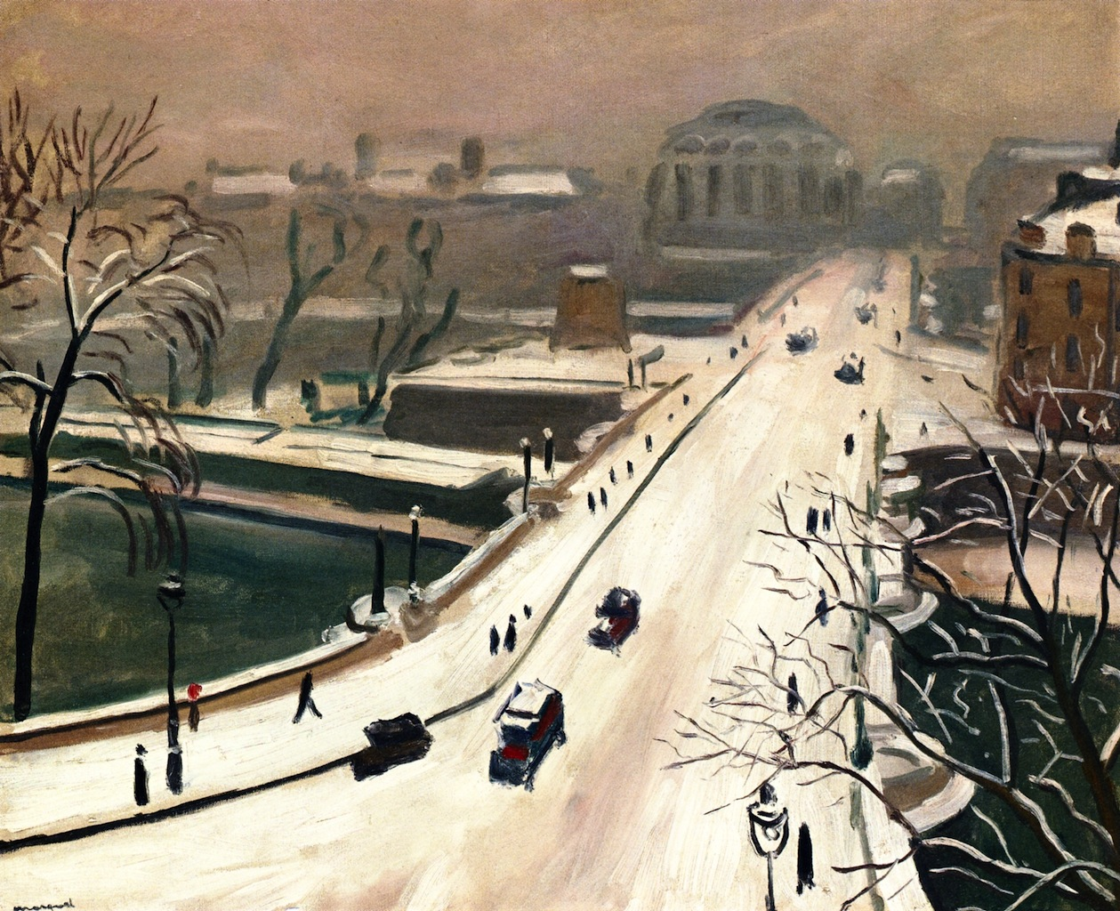 The Pont Neuf in the Snow Albert Marquet